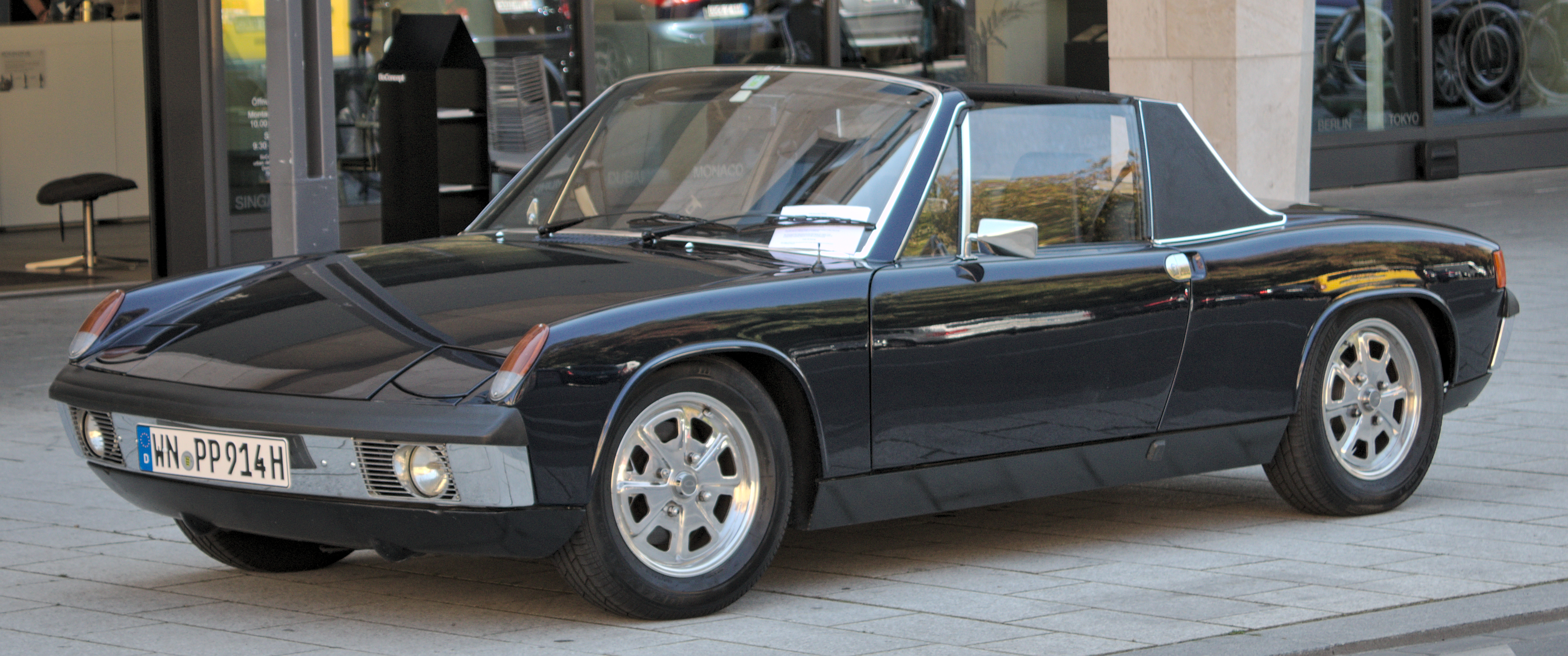 Porsche_914 in Stuttgart